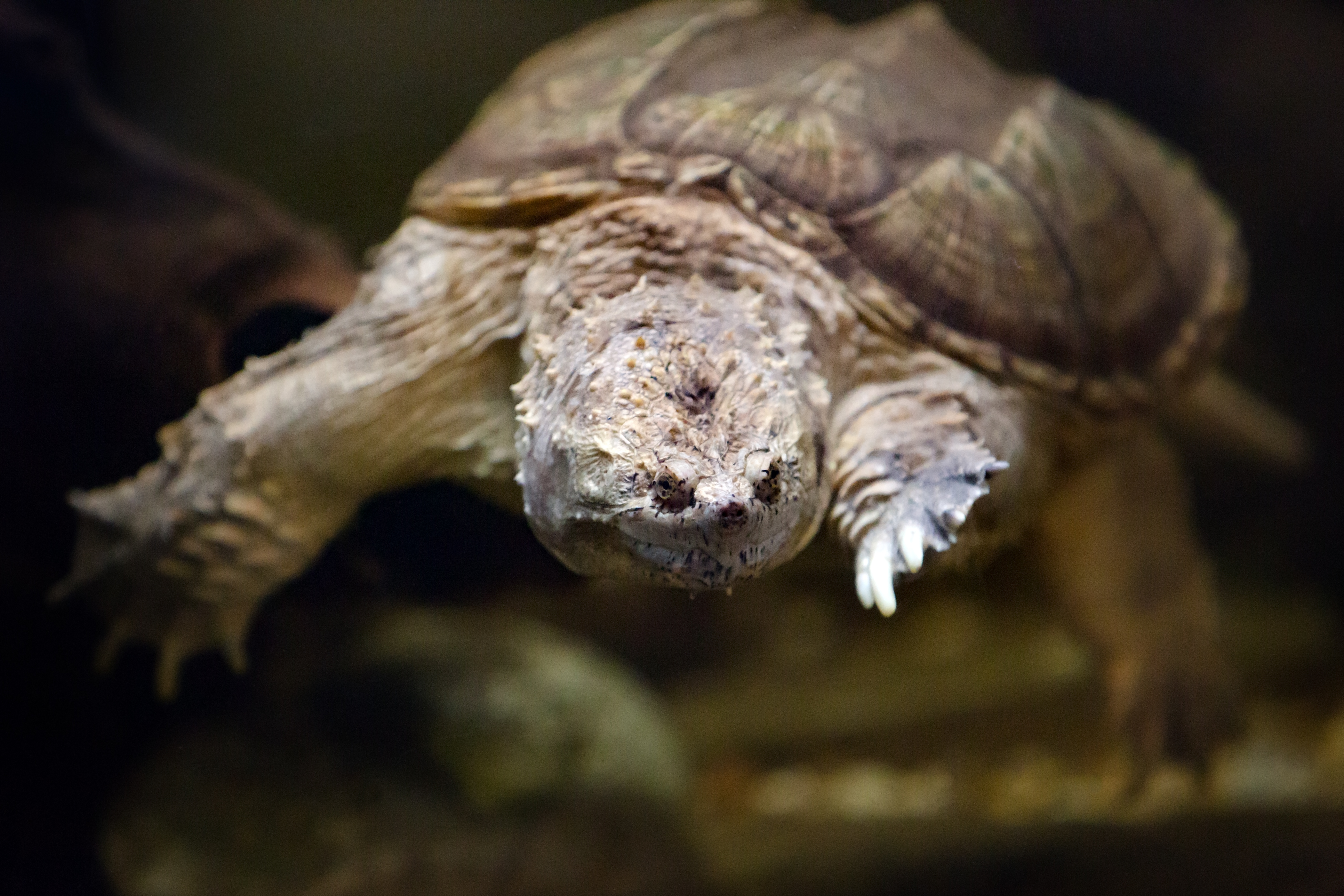 Common snapping turtle (Chelydra serpentina) at Blumengärten Hirschstetten in Vienna, Austria.